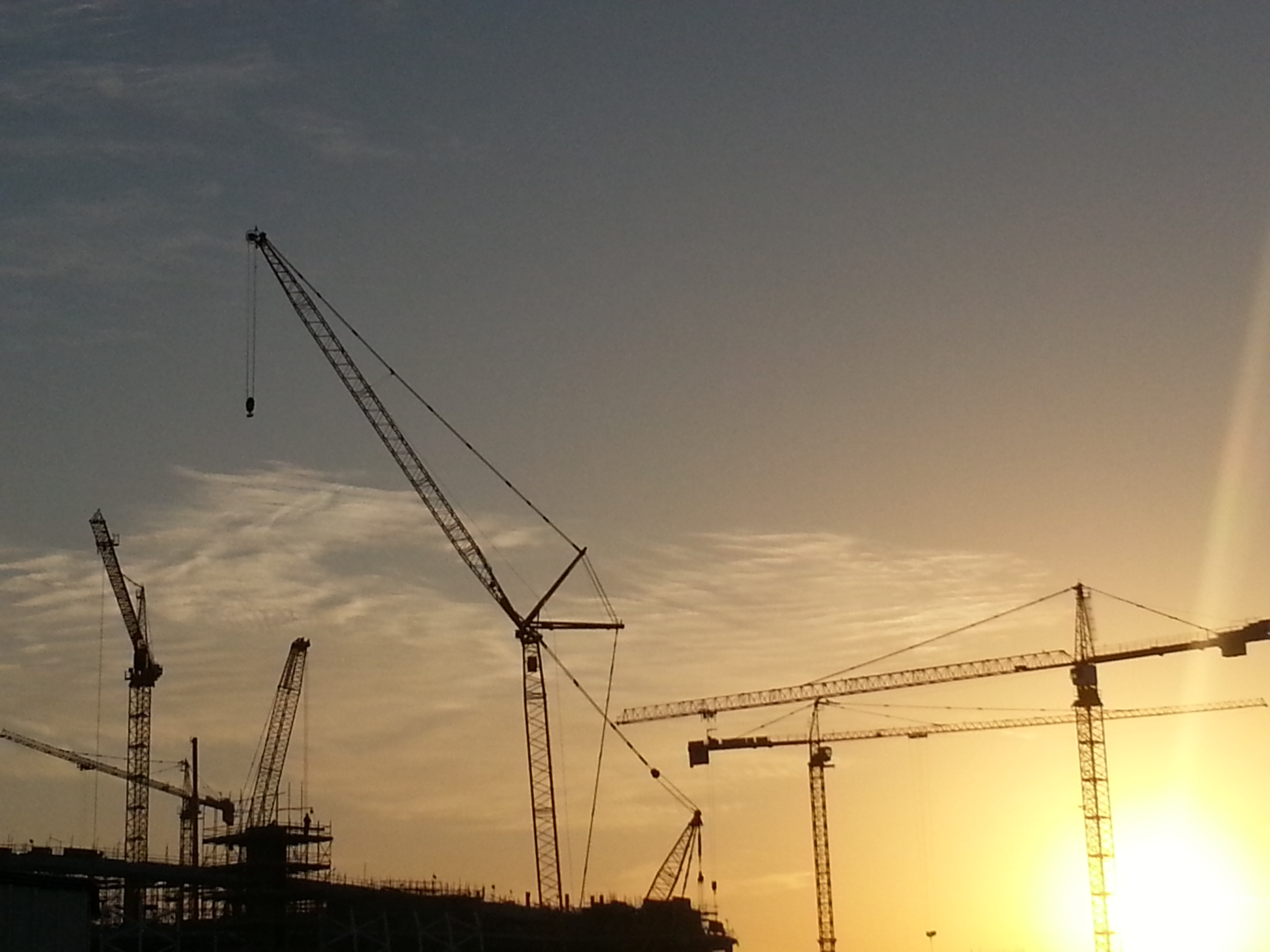 crawler crane and tower cranes. lusail al thumama stadium